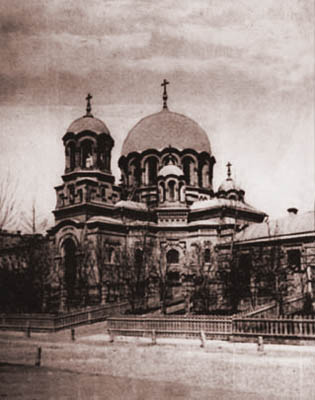 The Annunciation church in Kyiv, demolished by the bolsheviks in the 1930-s.